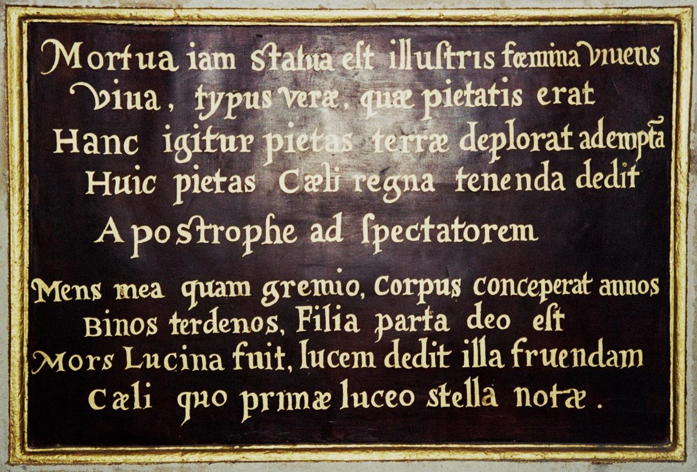 Plate with Latin text with long s (Exeter Cathedral)